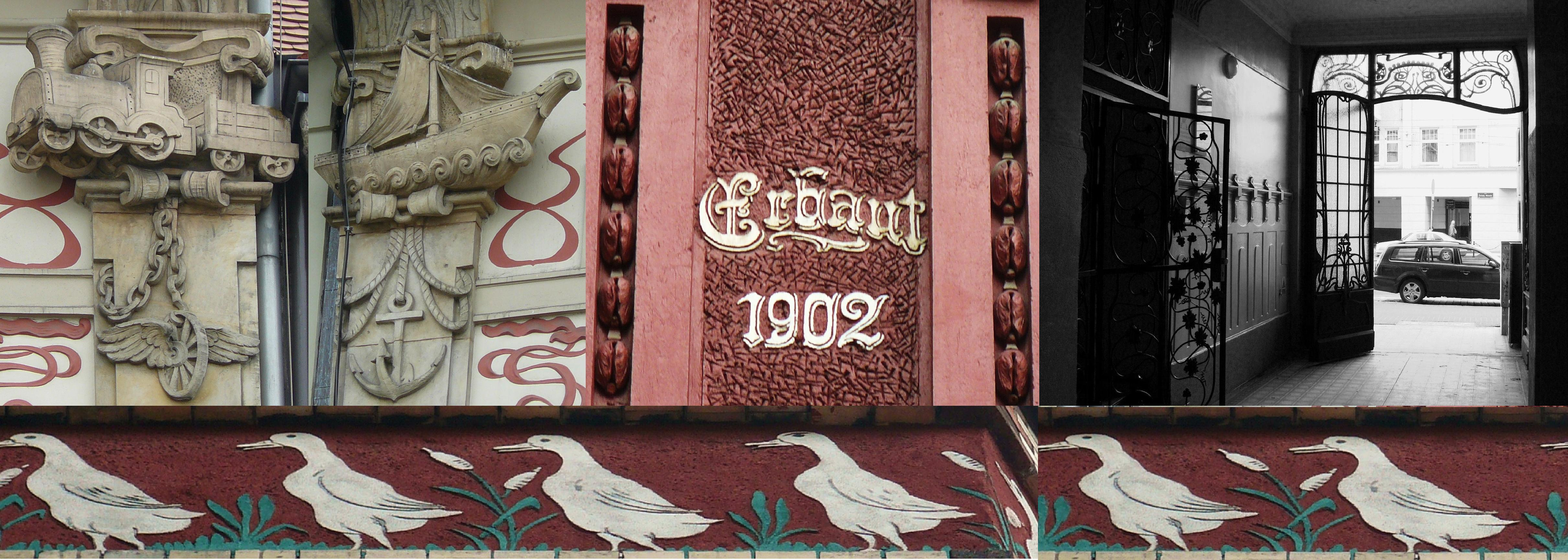 Haase-Wagner House in Poznan, St.Martin Street 69, detail.